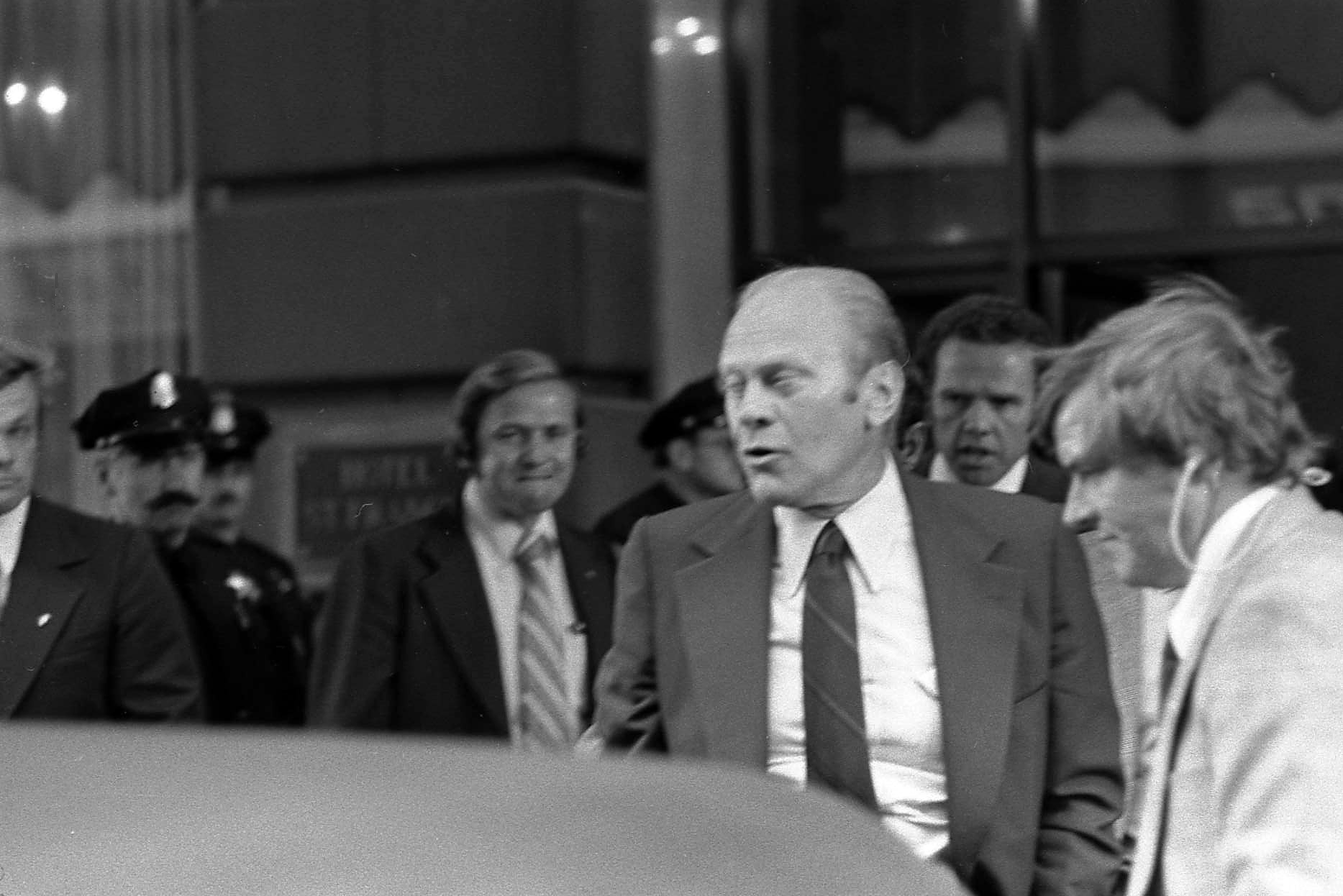 Photograph of President Gerald Ford wincing at the sound of the gun fired by Sara Jane Moore during the assassination attempt in San Francisco, California.